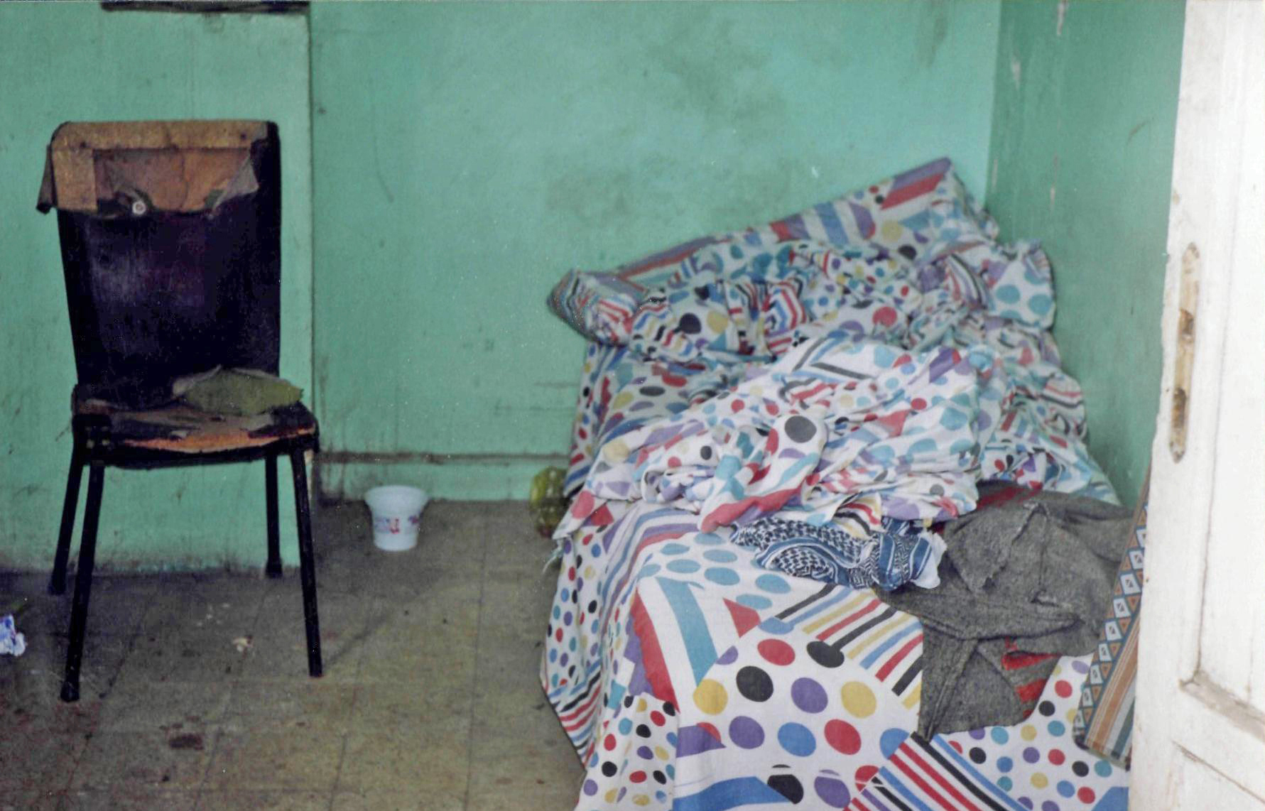 A room in one of the budget hotels on Clot Bey Street in Cairo